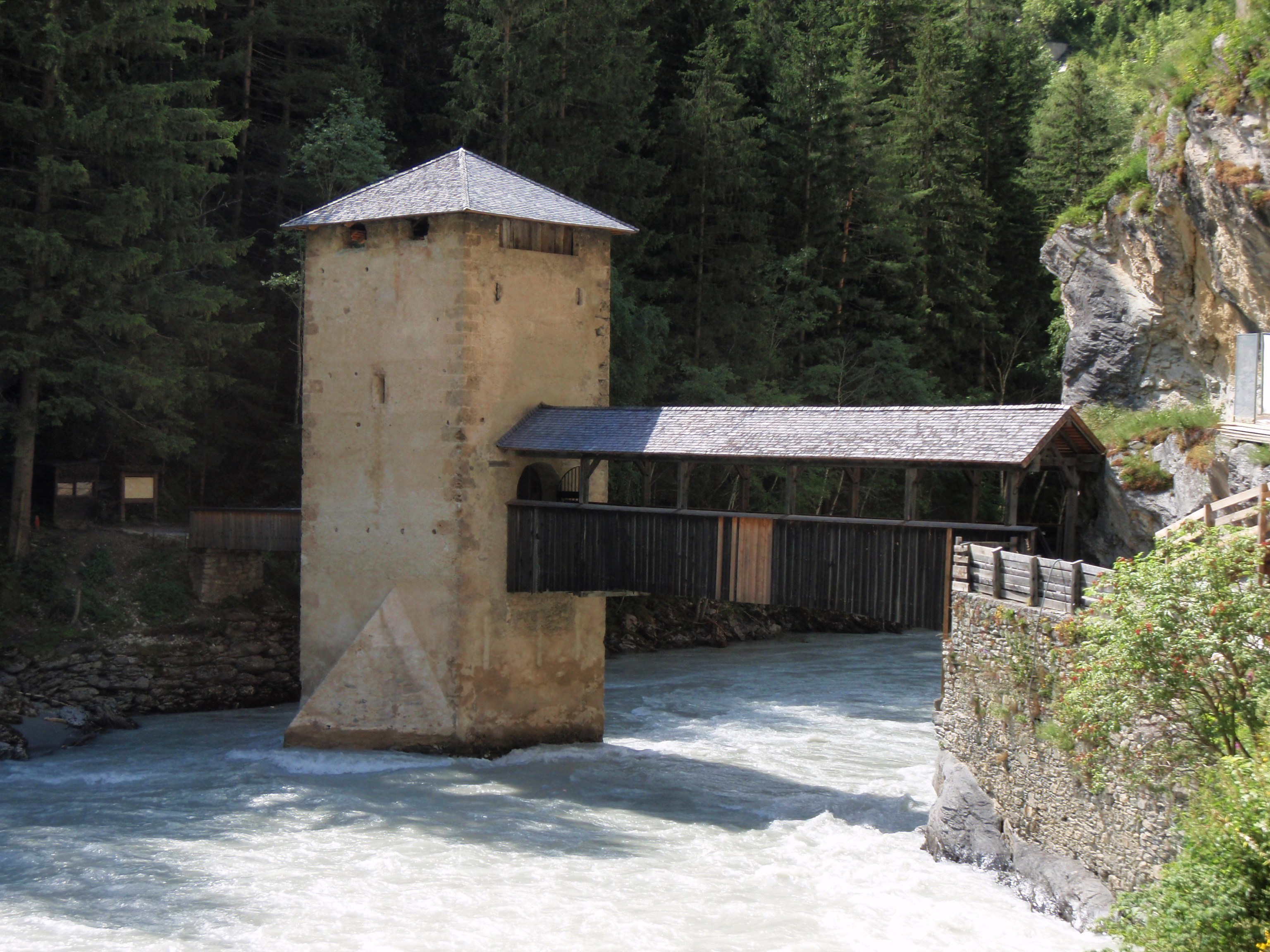 The Finstermünz bridge over the Inn, seen from the right riverbank